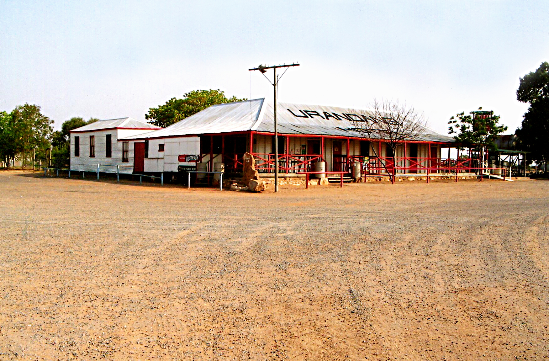 Urandangi Hotel, Queensland 26 October 2004. Scanned from a colour photograph taken by the author.